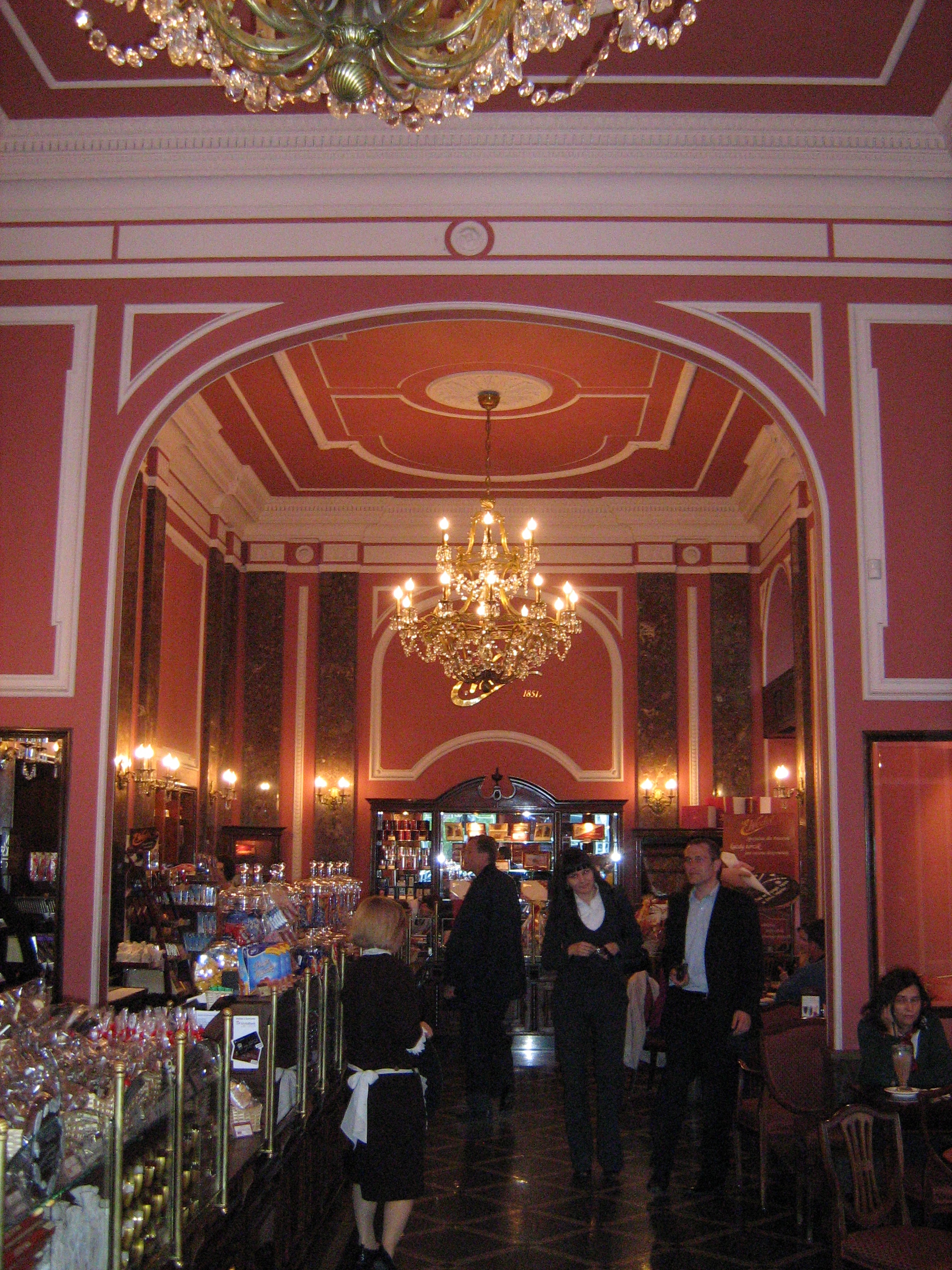 the original Wedel store in Warsaw Poland